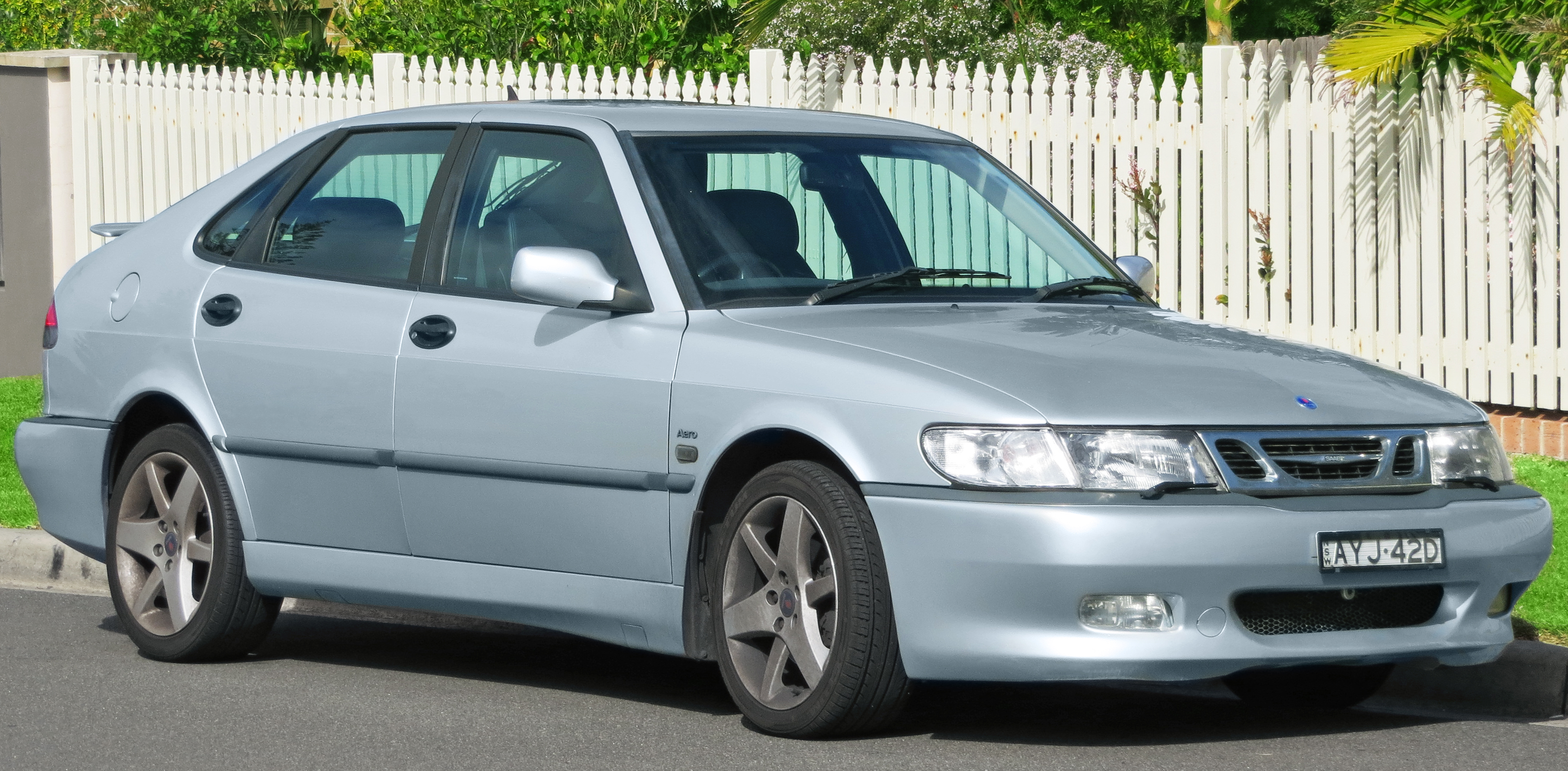 2002 Saab 9-3 Aero 5-door hatchback. Photographed in Cronulla, New South Wales, Australia.